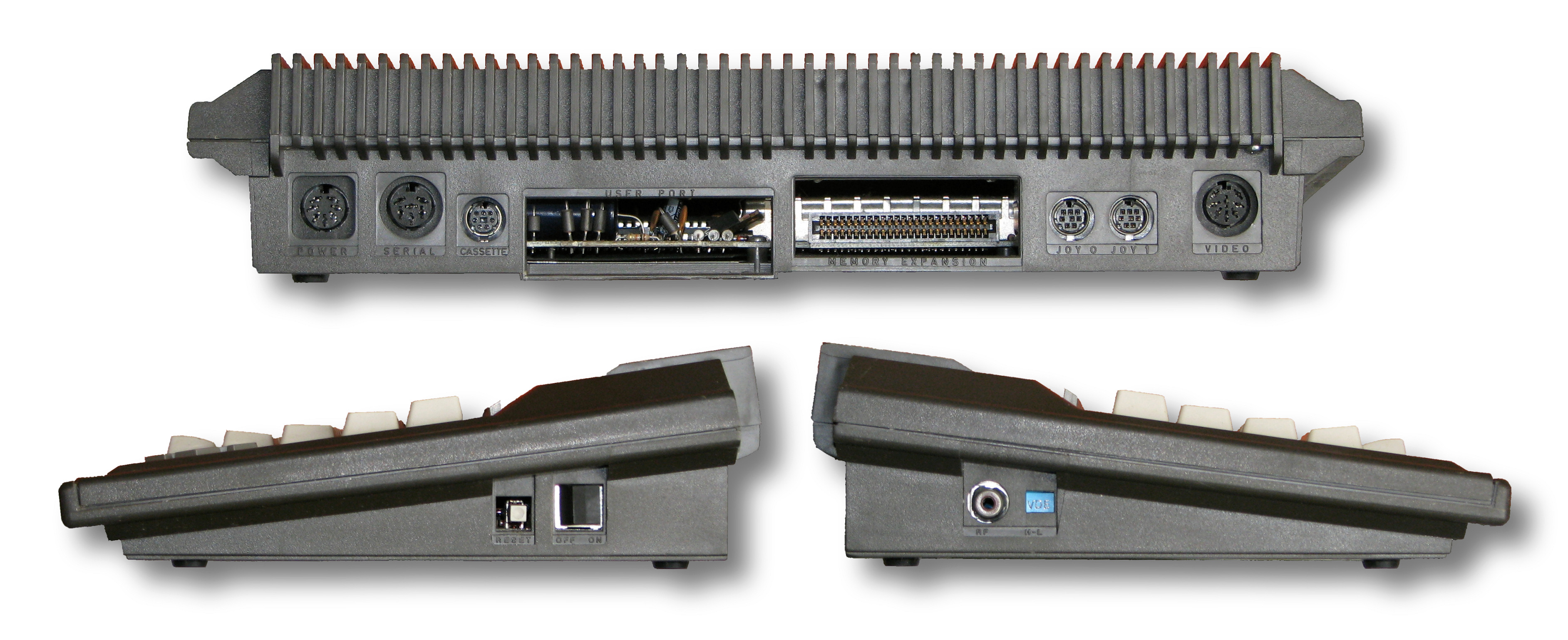 Commodore plus/4 interfaces